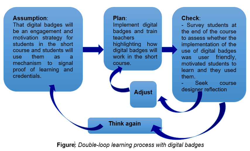 Figure represents a double-loop learning process in action with regards to the implementation of digital badges